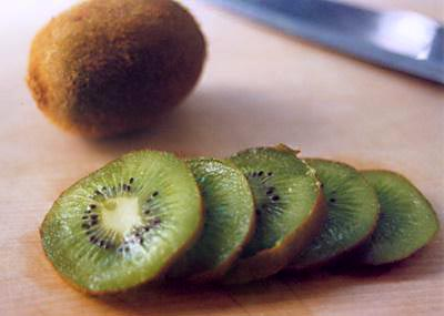 This image shows a whole kiwifruit in the background with a sliced one in the foreground. I shot this image on a Nikon FM2 using a Tamron 35-70mm macro zoom lens and Kodak 400s Max Versatility film. I release this image into the public domain; you may not claim you took this photo yourself, but you do not need my permission to use it in any other way for any reason. --KQ